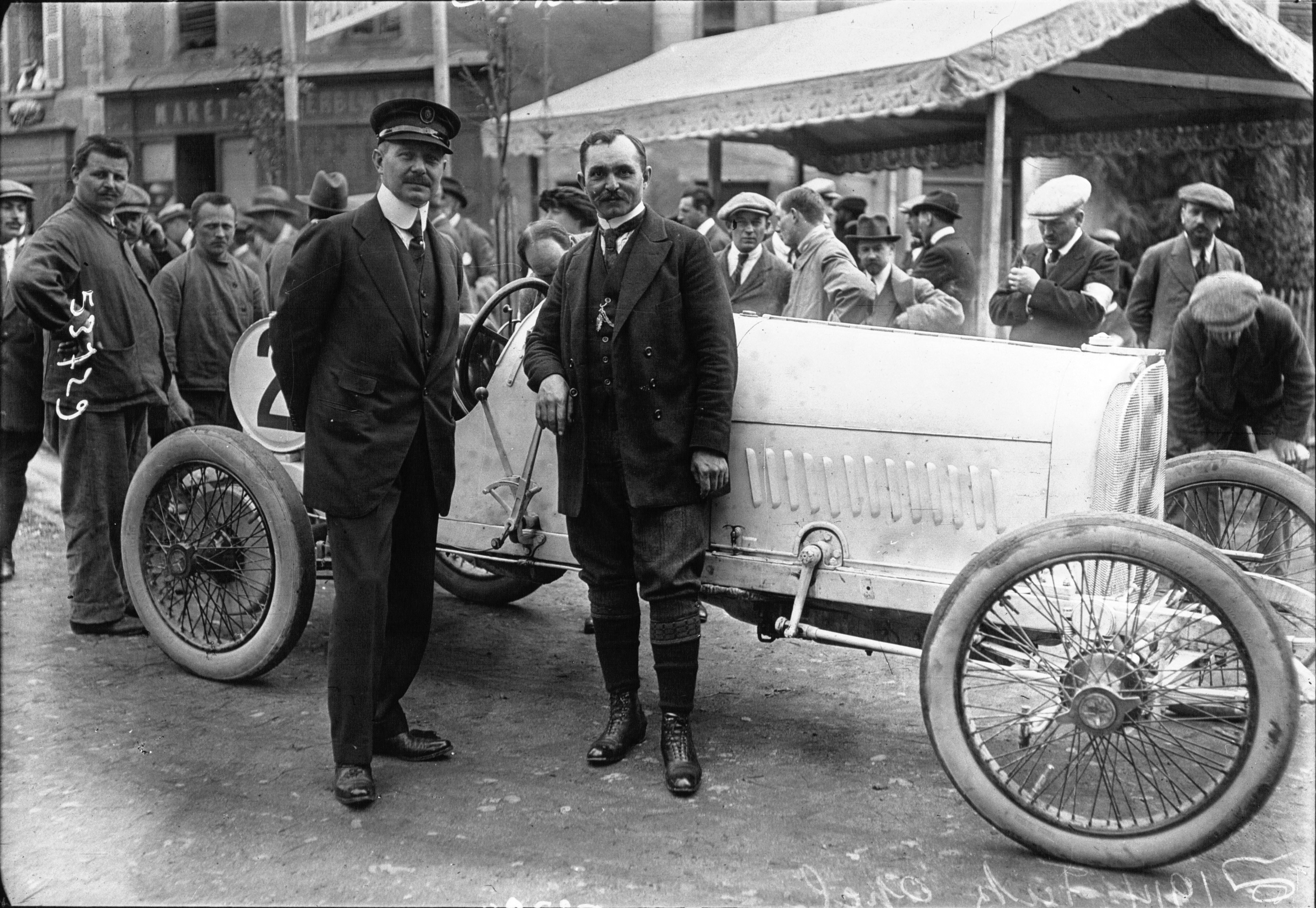 Friedrich Opel and Carl Jörns at the 1914 French Grand Prix